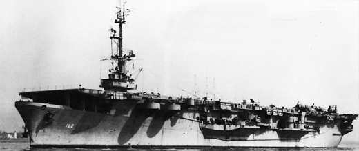 The U.S. Navy escort carrier USS Palau (CVE-122).